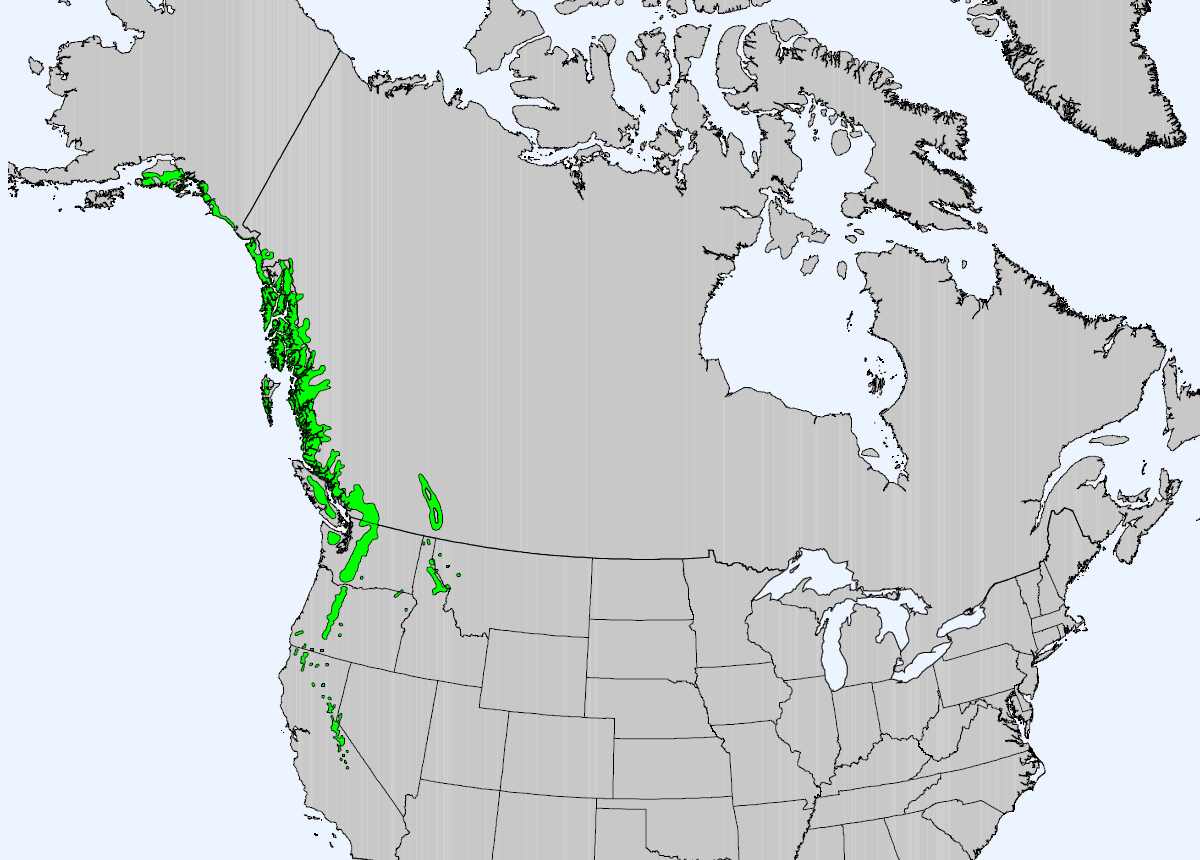 Range map of Mountain Hemlock Tsuga mertensiana